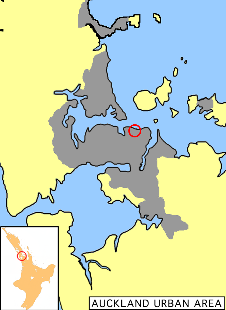 This file has been adapted, including a red circle to indicate the location of Mission Bay in Auckland, New Zealand